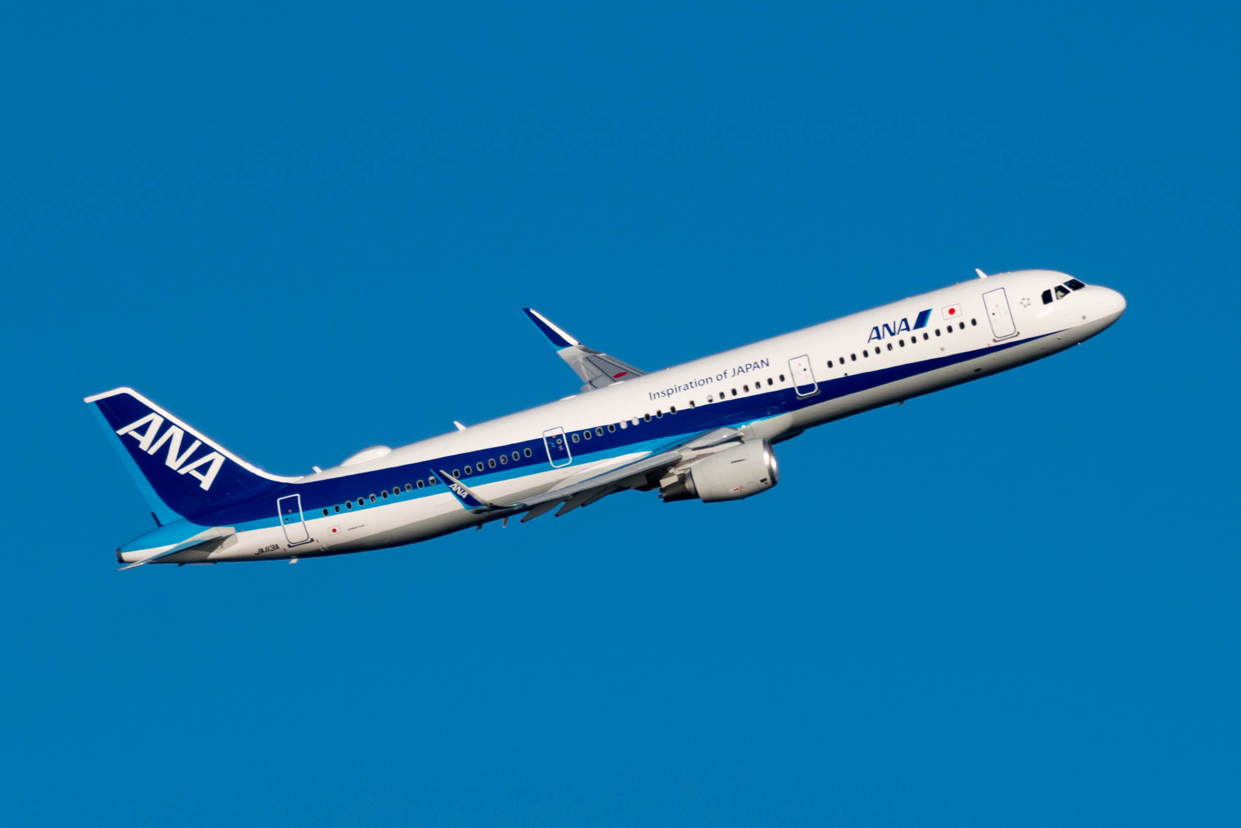 All Nippon Airways Airbus A321 at Tokyo Haneda Airport